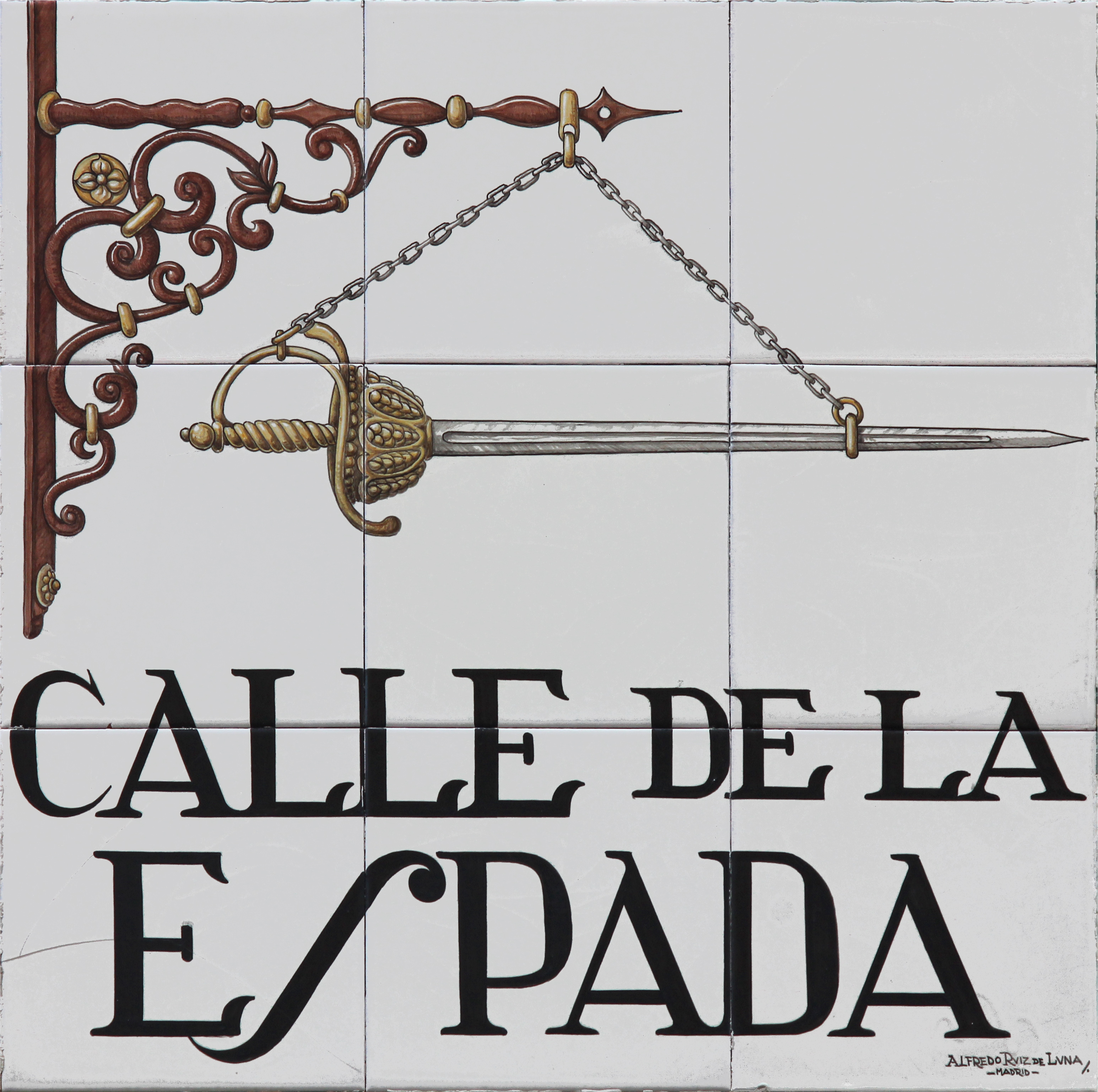 Sign of Calle de la Espada (street) in Madrid (Spain).